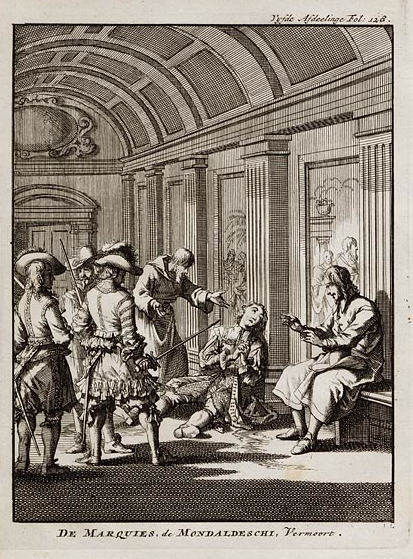 De Marquies de Mondaldeschi vermoort [ Gian Rinaldo Monaldeschi assassination in Fontainebleau, 10 November 1657], etching by Jan Luyken.